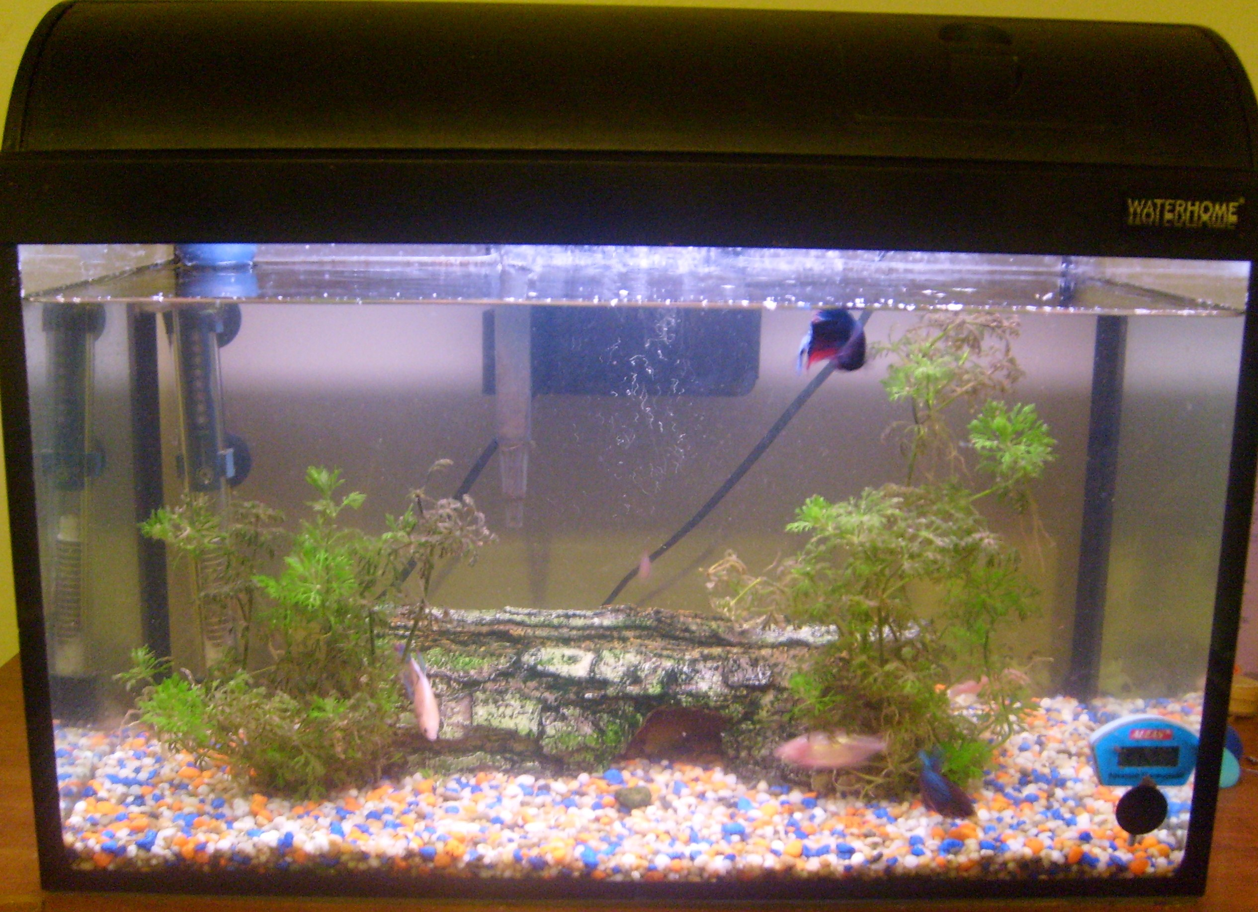 A shot of our 10 Gallon tank. Hopefully being used as an example of a personal water tank.